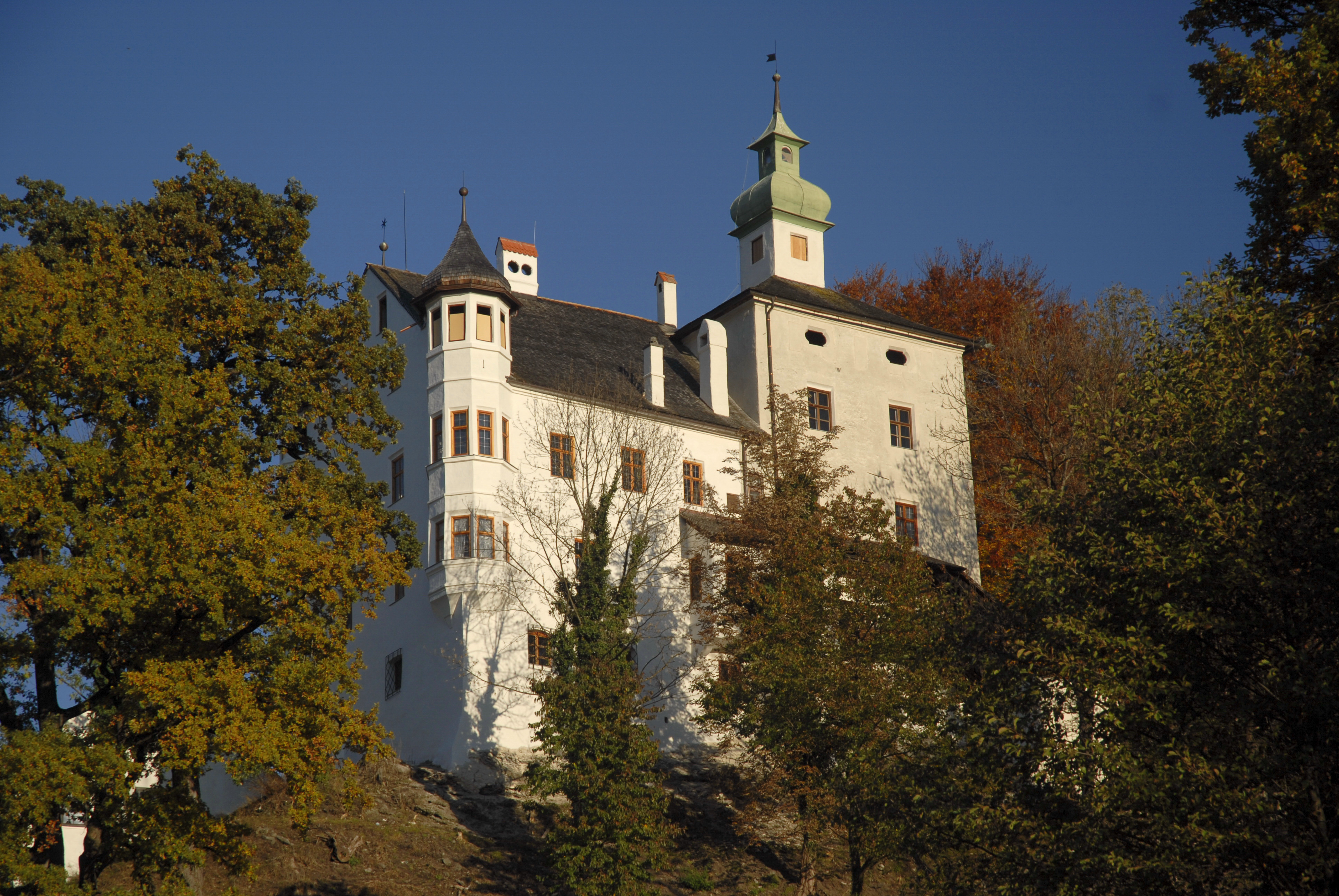 Aschach castel in Volders, Tyrol, Austria